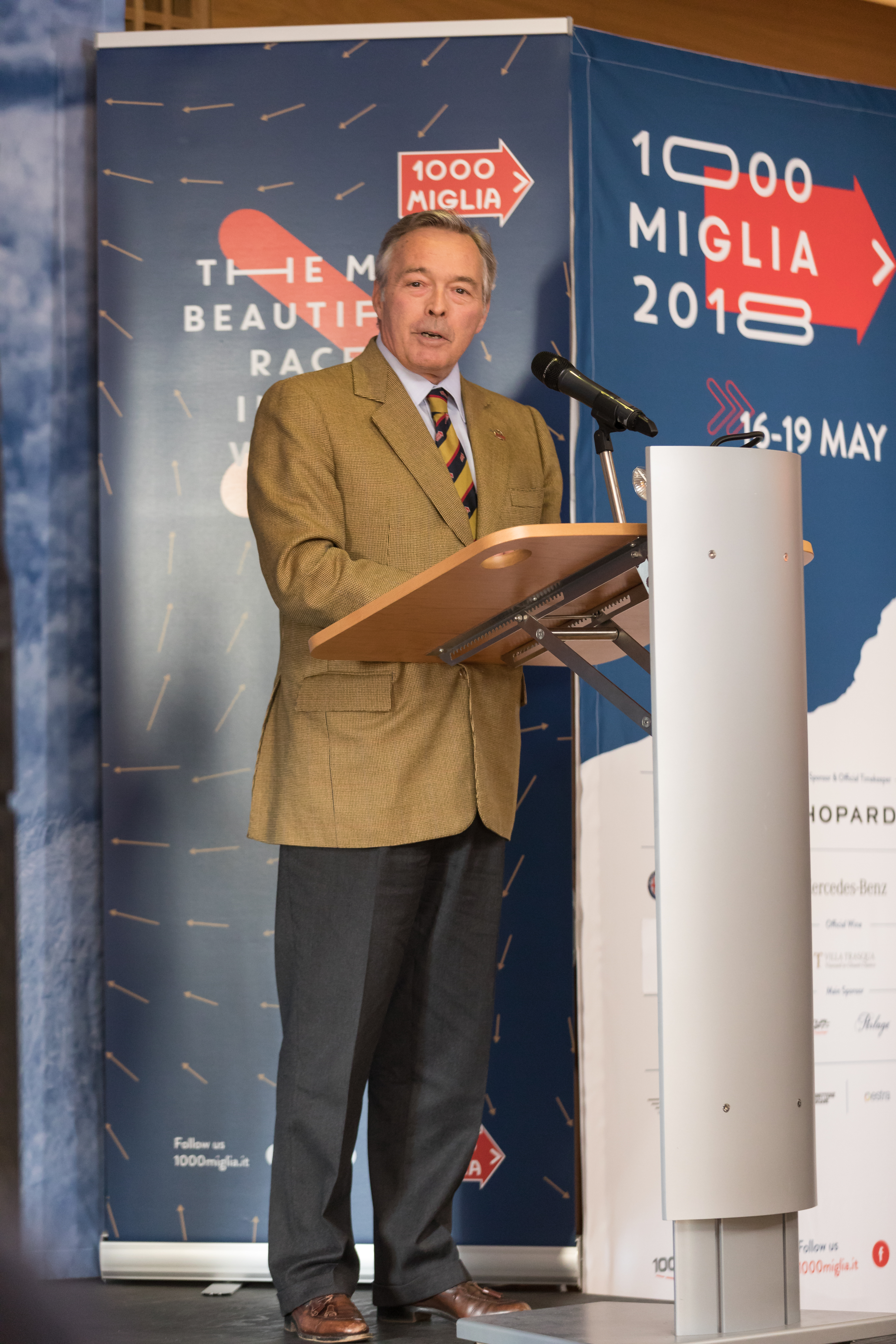 Mille Miglia 2018 press announcement